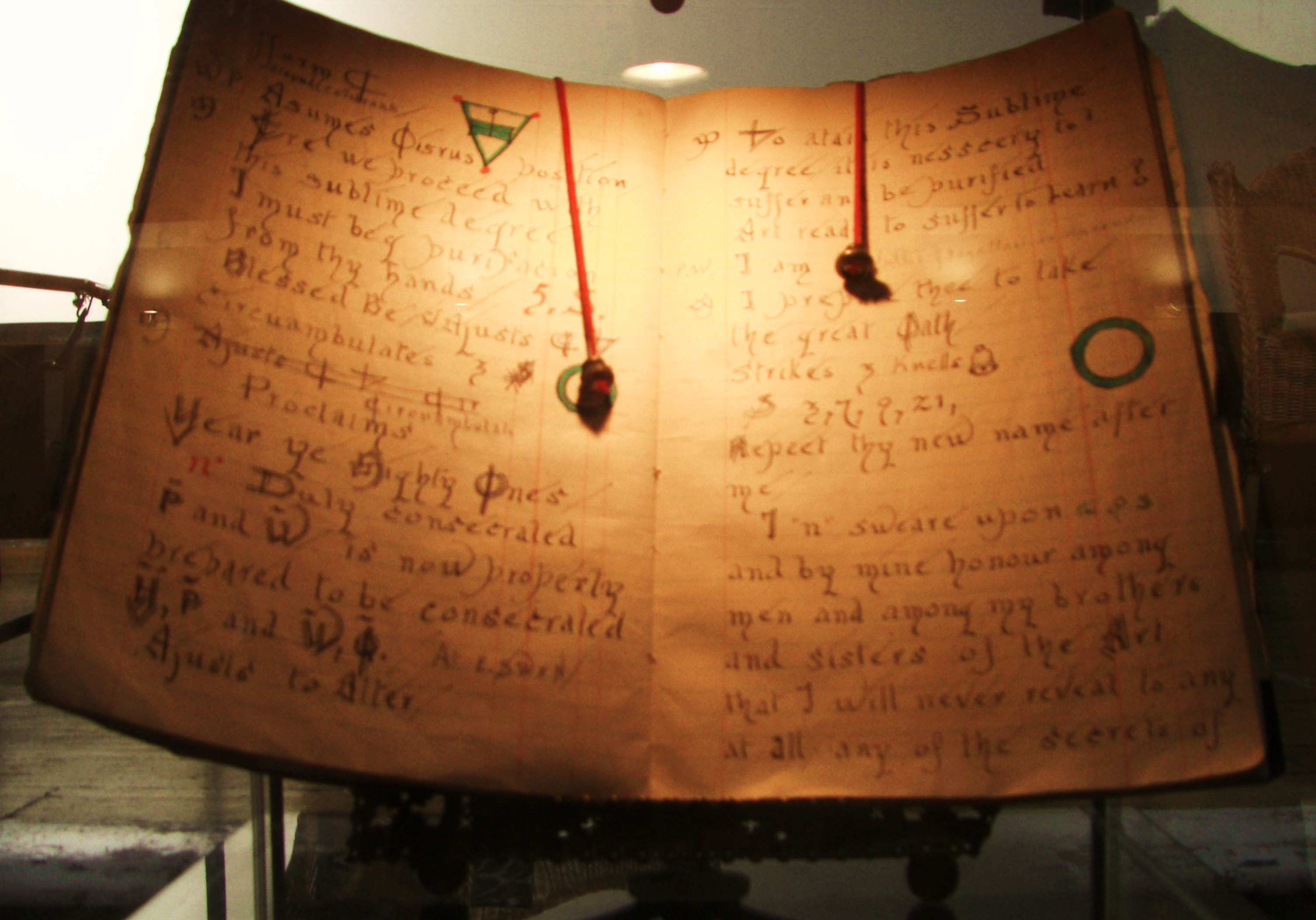 One of the Book of Shadows owned by Gerald Gardner, left in his will to Doreen Valiente, and through her to John Belham-Payne.